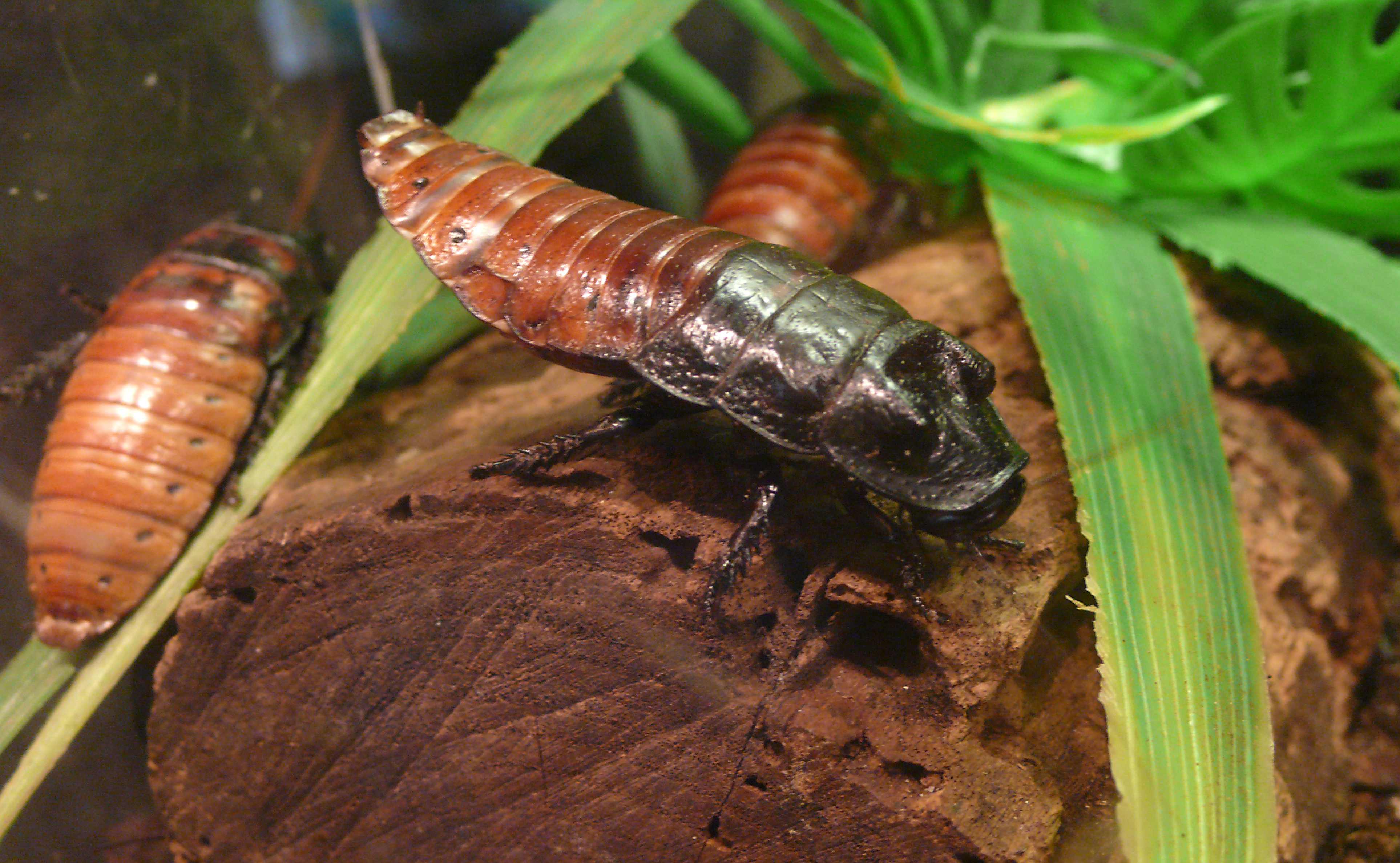 Madagascar hissing cockroach (Gromphadorhina portentosa) - male